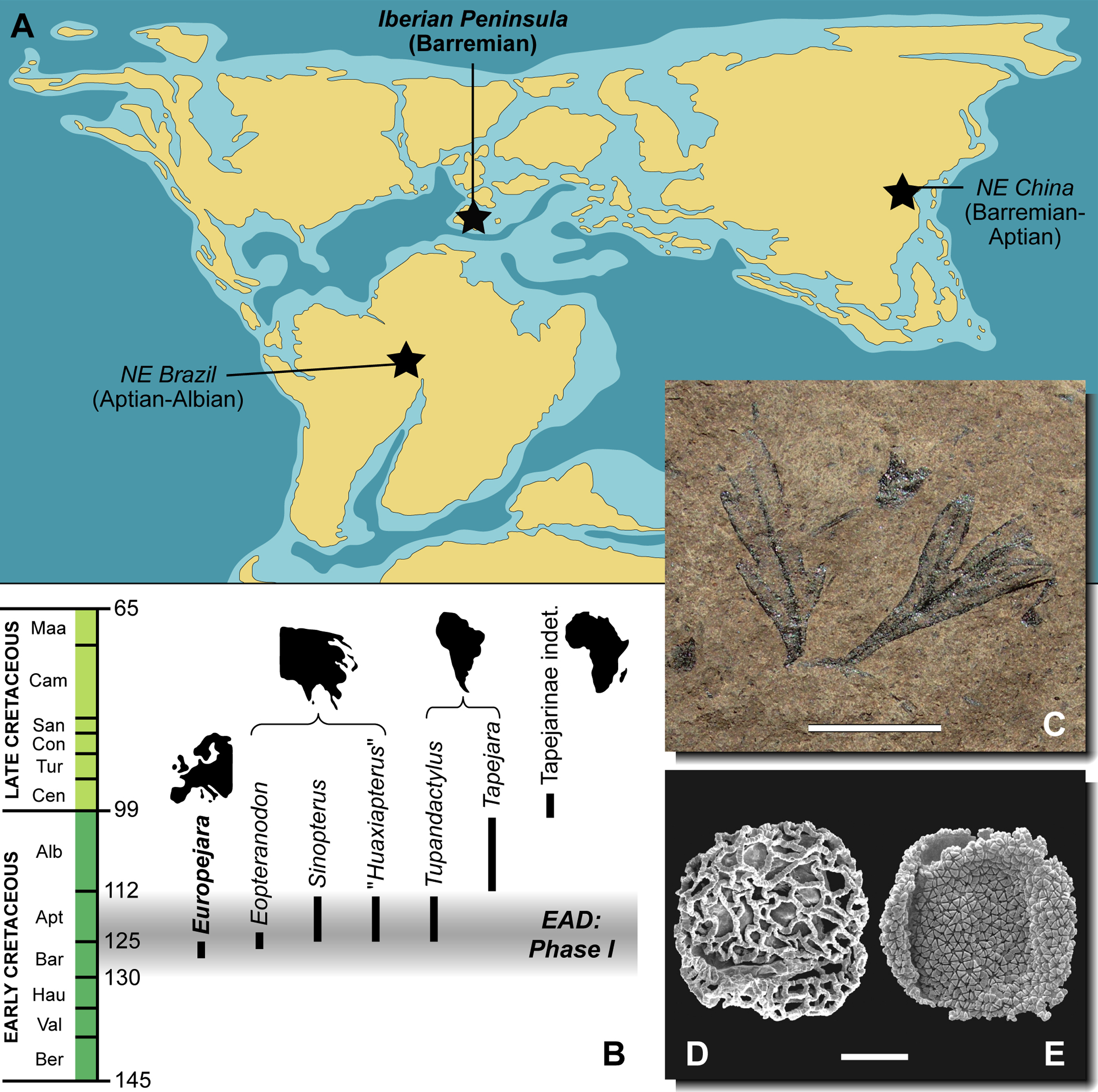 Distribution through time and space of tapejarine pterosaurs and early angiosperms. (A) Early Cretaceous (Aptian) paleogeographical map showing the three main areas where tapejarids co-occur with early angiosperms (black stars). (B) Stratigraphic distribution of the different tapejarid taxa (silhouettes above each taxon denote geographical occurrences); note that the diversification of tapejarids coincides with the Phase I of the early angiosperm diversification (EAD) [60]–[62]. (C) Leaves of an early angiosperm (cf. Jixia) from the late Barremian of Las Hoyas (MCCM-LH 30351), one of the oldest known macrofossil of a terrestrial flowering plant. Early angiosperm pollen grains Afropollis (D) and Stellatopollis (E) from the La Huérguina Formation, both worldwide distributed during the Barremian–Aptian interval. Ber, Berriasian; Val, Valanginian; Hau, Hauterivian; Bar, Barremian; Apt, Aptian; Alb, Albian; Cen, Cenomanian; Tur, Turonian; Con, Coniacian; San, Santonian; Cam, Campanian; Maa, Maastrichtian. Scale bars: 10 mm (C) and 10 µm (D,E).